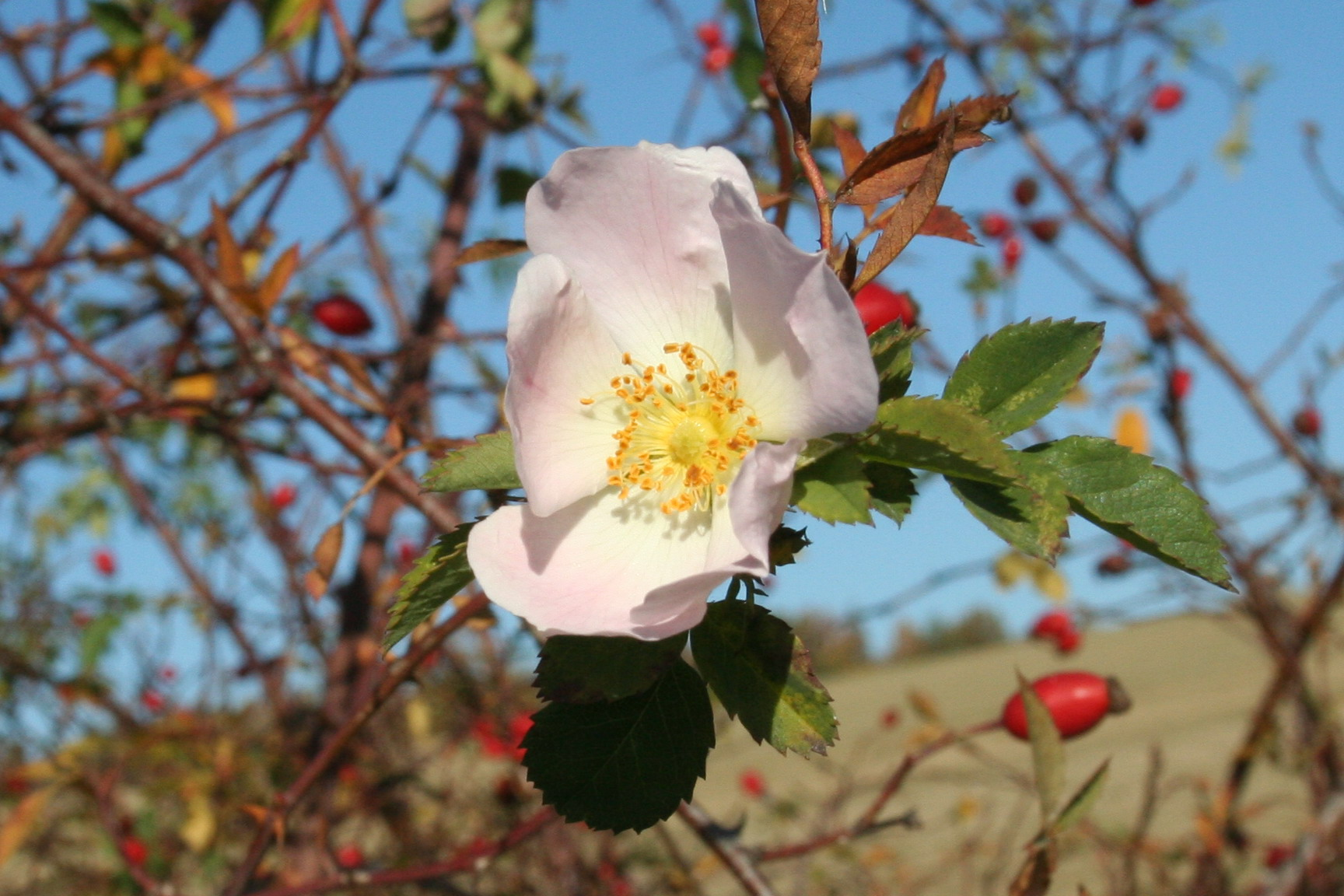 Rosa canina flower. Photograph taken late October 2005.